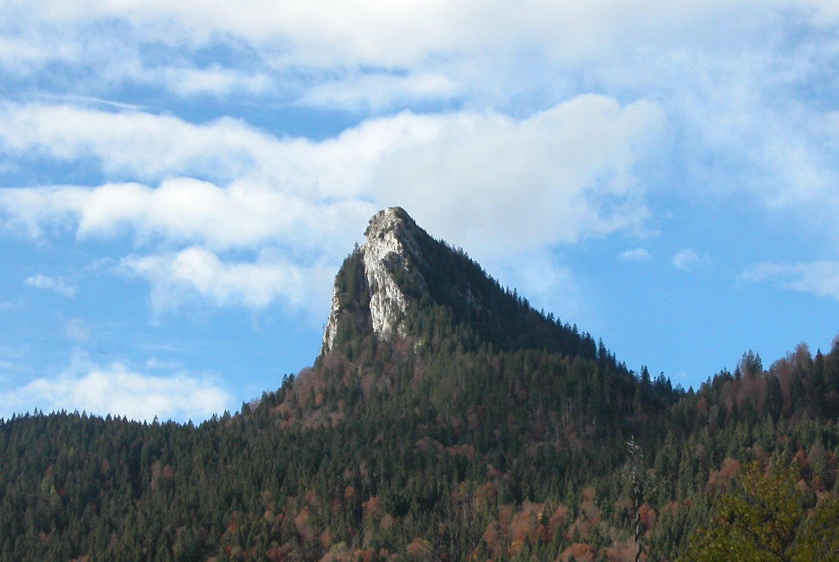 View of the Leonhardstein mountain in the Tegernsee Mountains of Bavaria, Germany